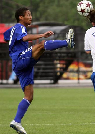 Russian midfielder Stanislav Lebamba